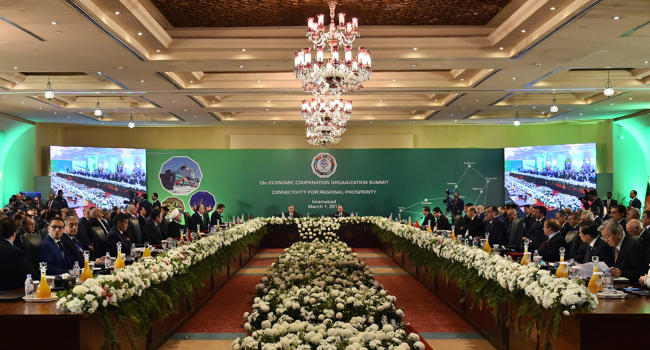 13th Summit of Economic Cooperation Organization in Pakistan